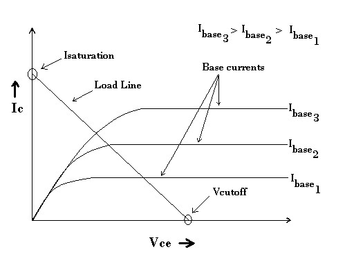 Diagram of load line for common emitter transistor topology. Details base current curves, saturation current and cutoff voltage.